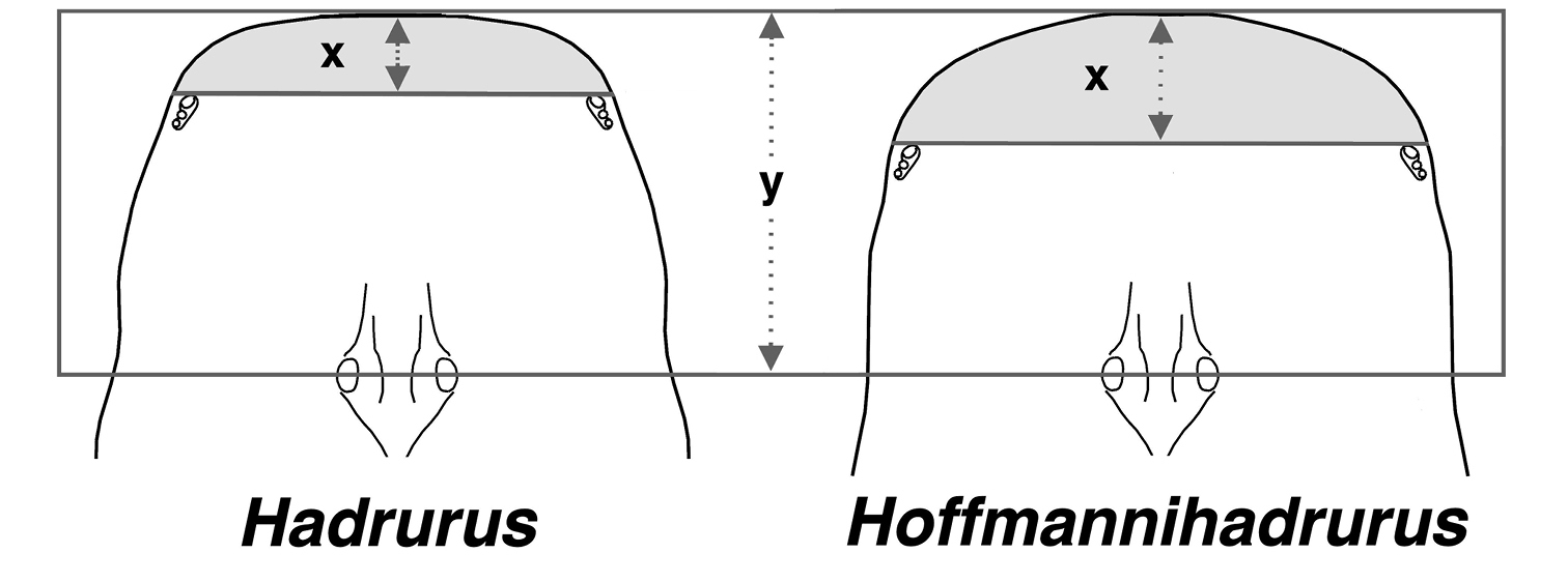 Differences between Hadrurus and Hoffmannihadrurus based on the distance between median and lateral eyes and anterior edge of the carapace.